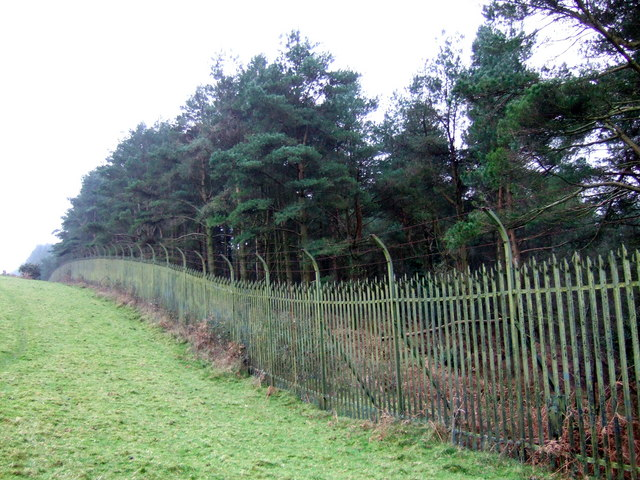 Forbidden zone beyond Trecwn This is the northernmost end of the massive security fence around the perimeter of the former RNAD munitions store at Trecwn, a few miles south of Fishguard. Although the depot was decommissioned in 1998 the entire Trecwn valley remains out of bounds to the general public. A series of private companies has bought and sold the land, in one case with the intention of storing nuclear waste in the underground tunnels that remain. Local protests put paid to that idea (for the time being at least), but the facility has still not been put to use.